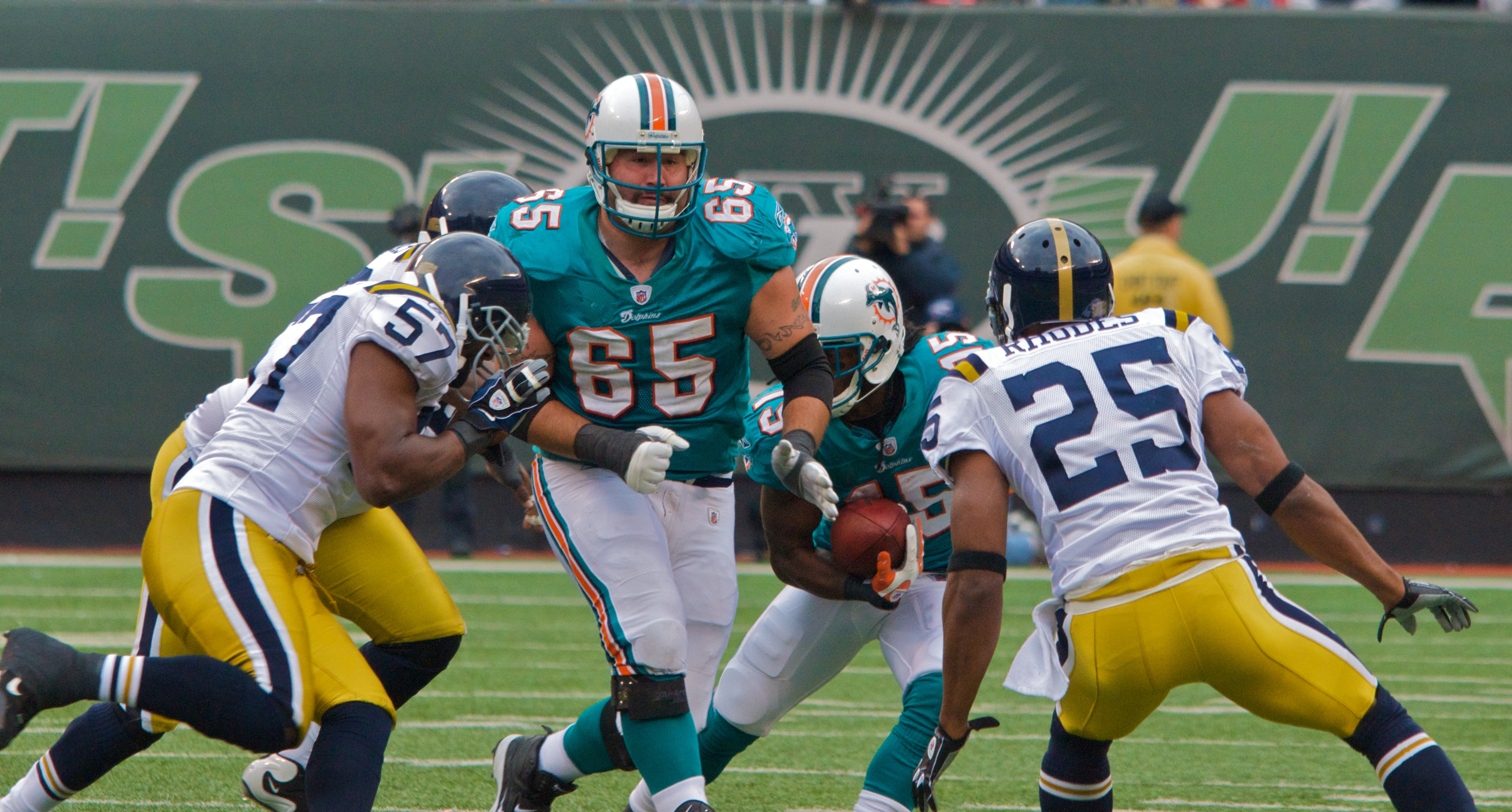 Justin Smiley of the Miami Dolphins